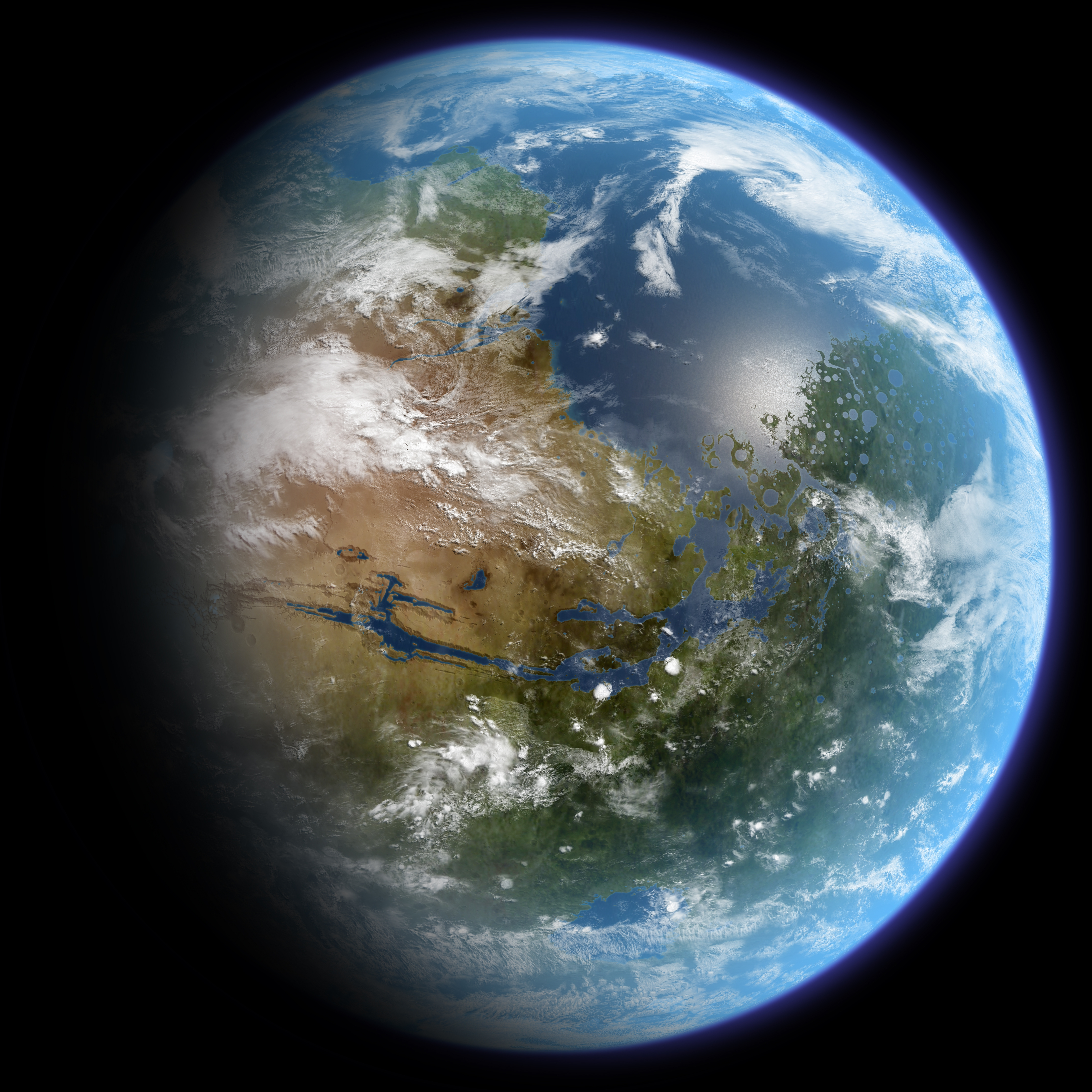 An artist's impression of a terraformed Mars centered over Valles Marineris. The Tharsis region can be seen of the left side of the globe.